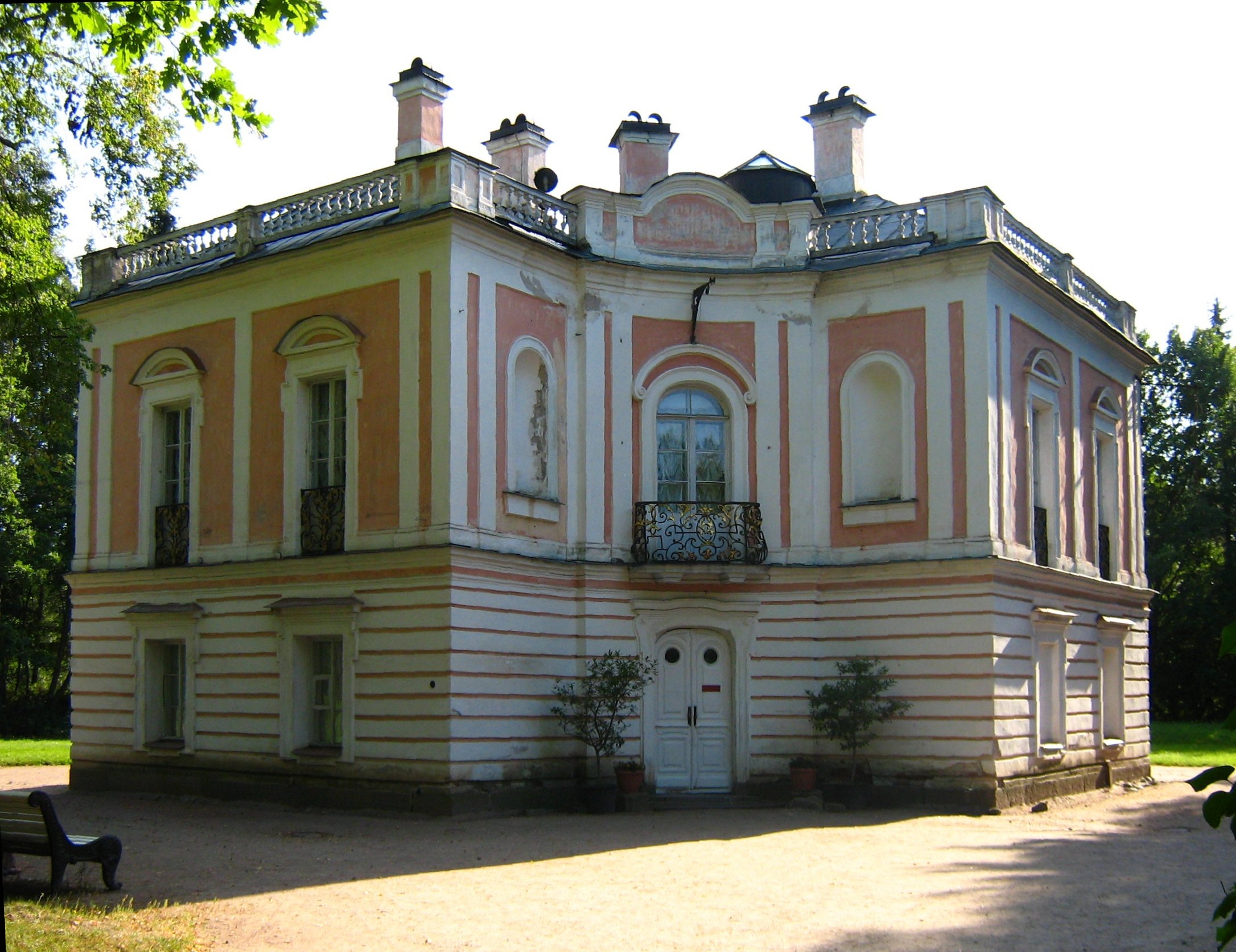 The palace of Petr III in Oranienbaum (Lomonosov), Russia